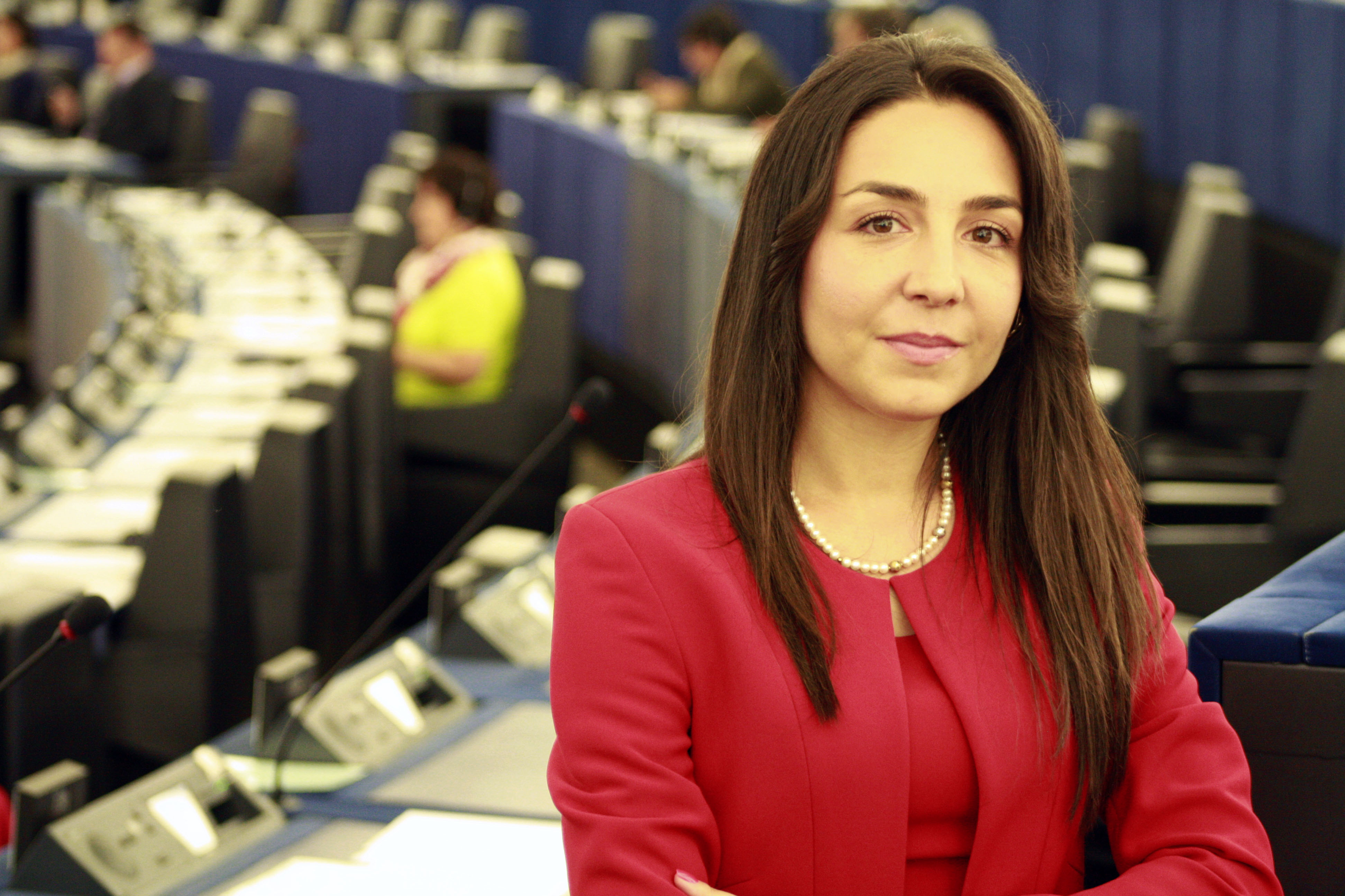 MEP Claudia Tapardel